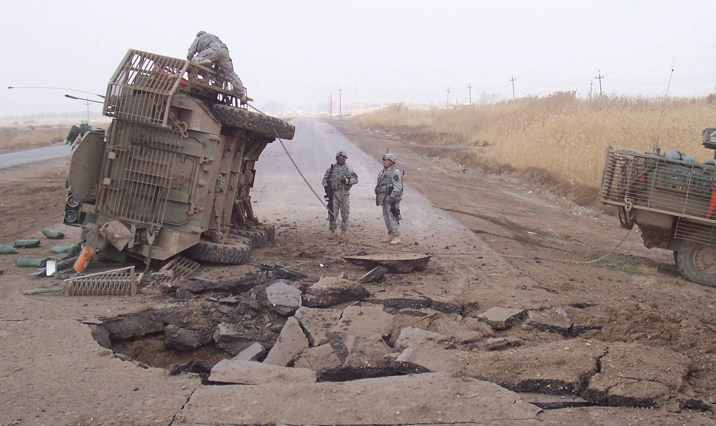 In this file photo, a Stryker lies on its side after surviving a buried IED blast in 2007.